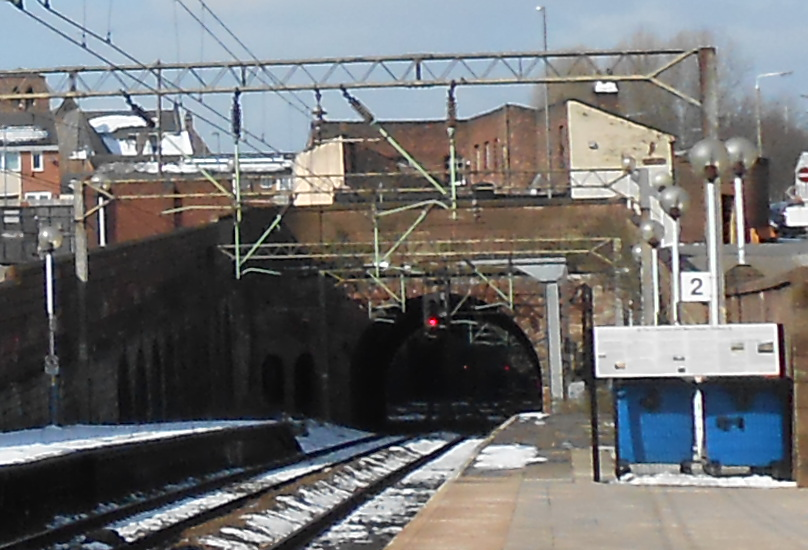 Photo taken at Edge Hill railway station, Liverpool, England.